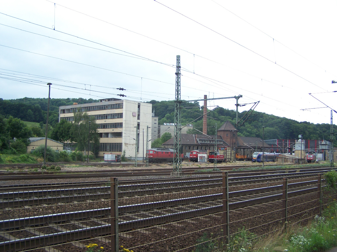 A part of the former railway administration complex in Eisenach.